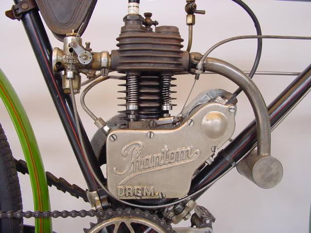 Phantom ½ HP 155 cc sidevalve engine, Germany 1920.